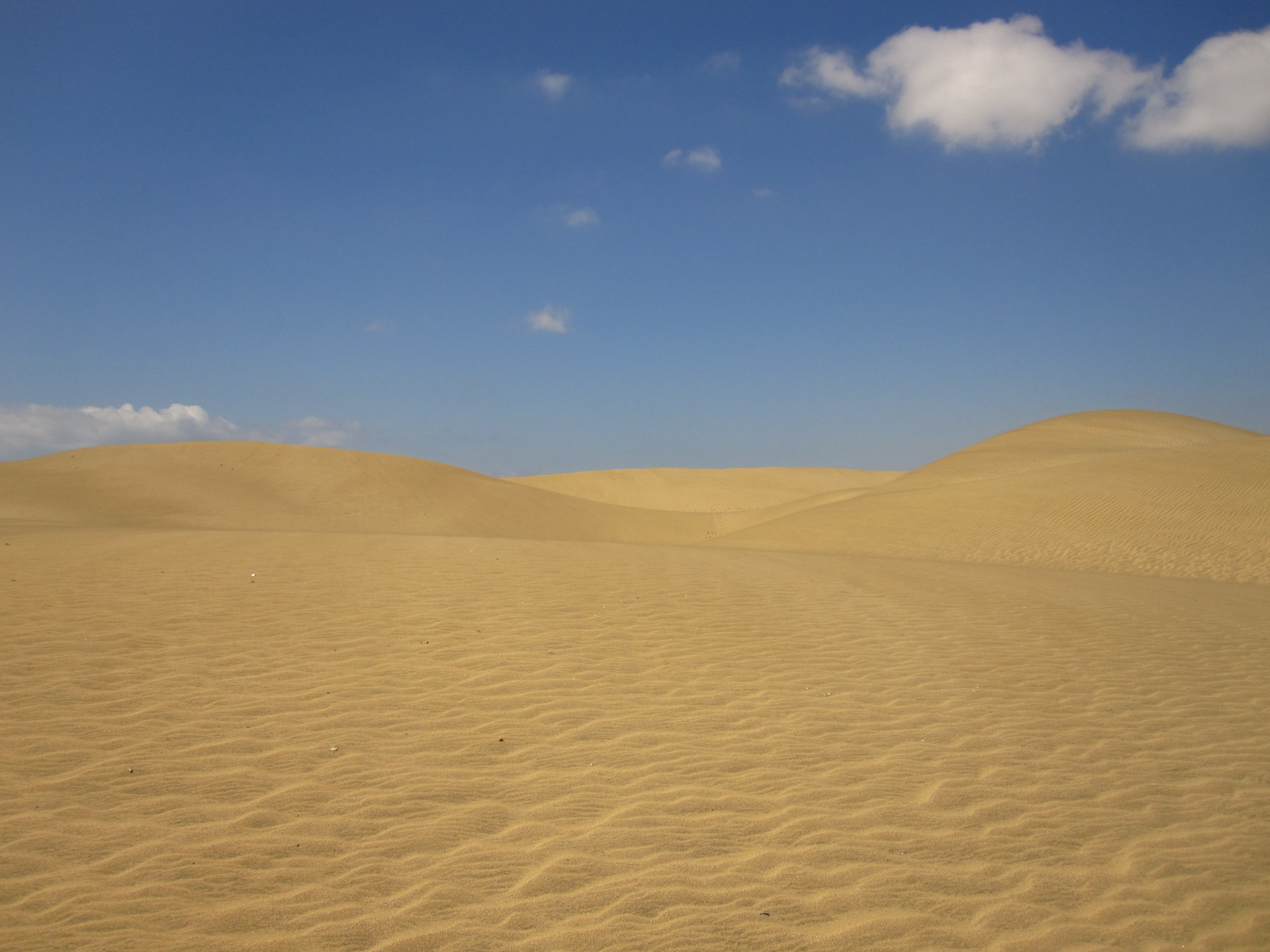 Amazing Maspalomas Dunes, Southern Gran Canaria - The Canary Islands